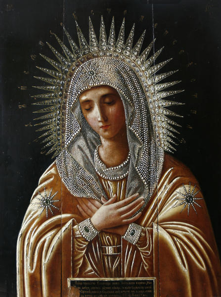 Eleusa venerated icon from Diveevo monastery